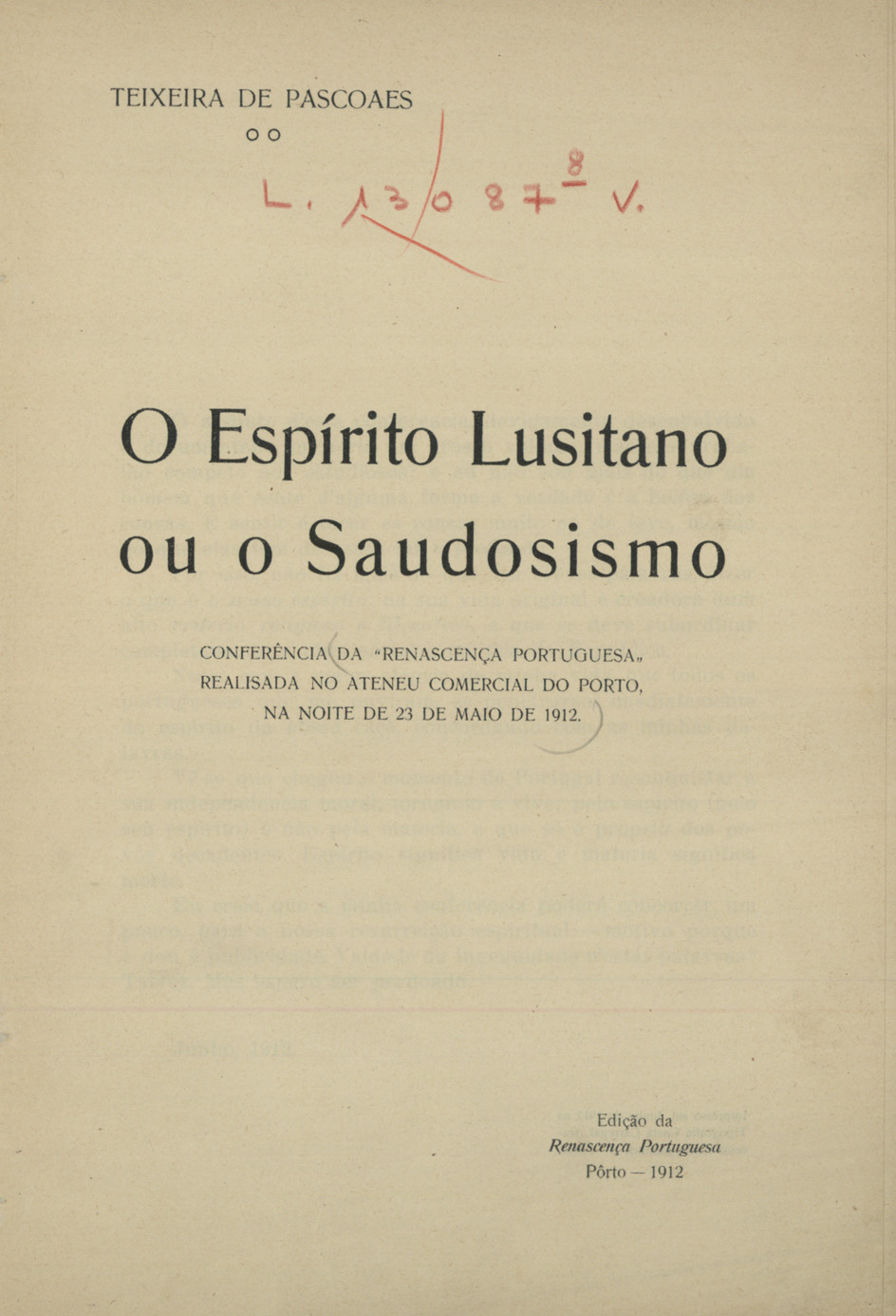 Frontispiece of Teixeira de Pascoaes' book «O Espírito Lusitano ou o Saudosismo» (Porto, Renascença Portuguesa, 1912)